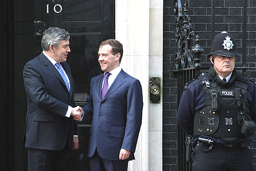 LONDON. With British Prime Minister Gordon Brown.